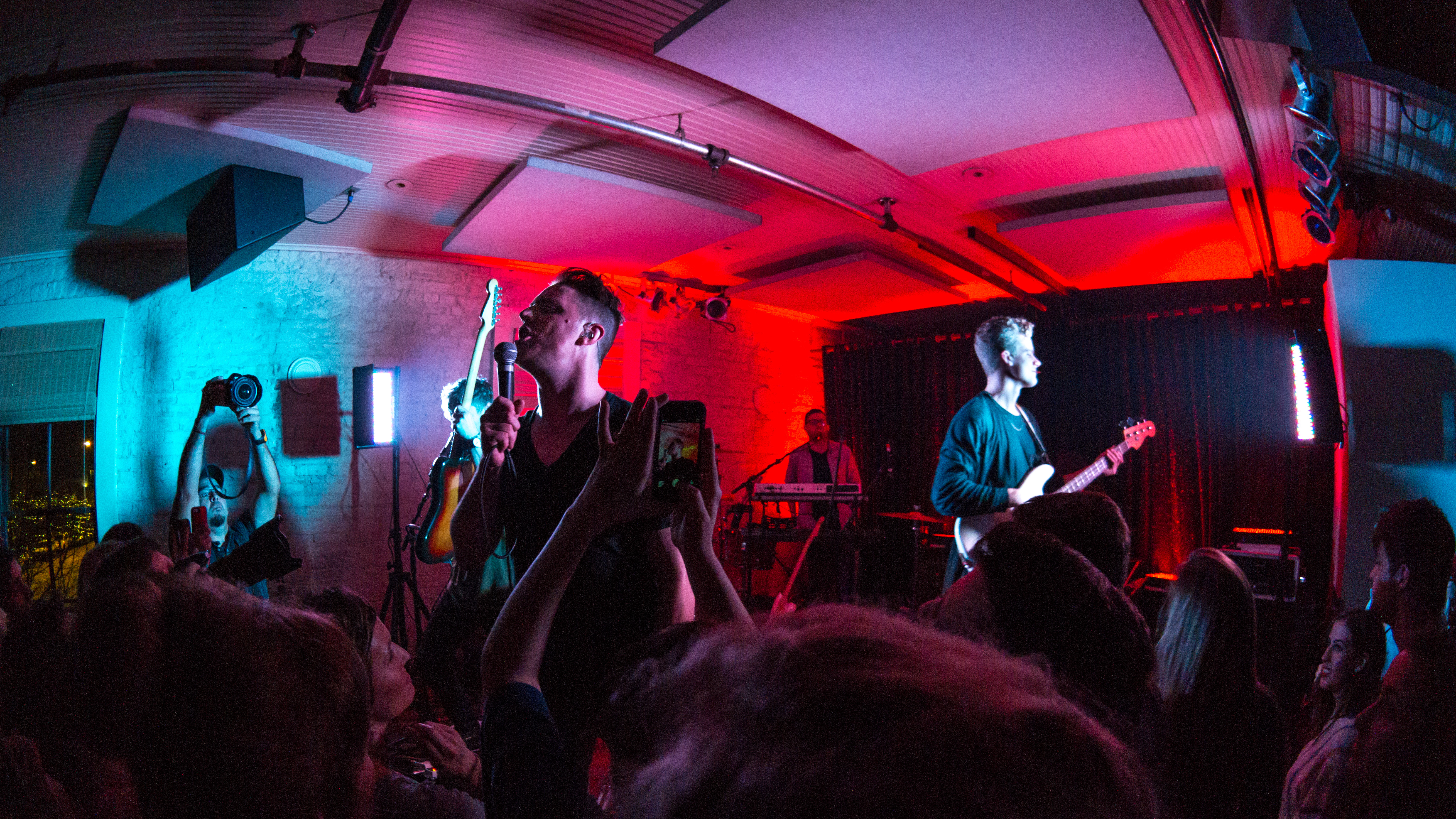 Wild Cub performing at Lambert's BBQ in 2014